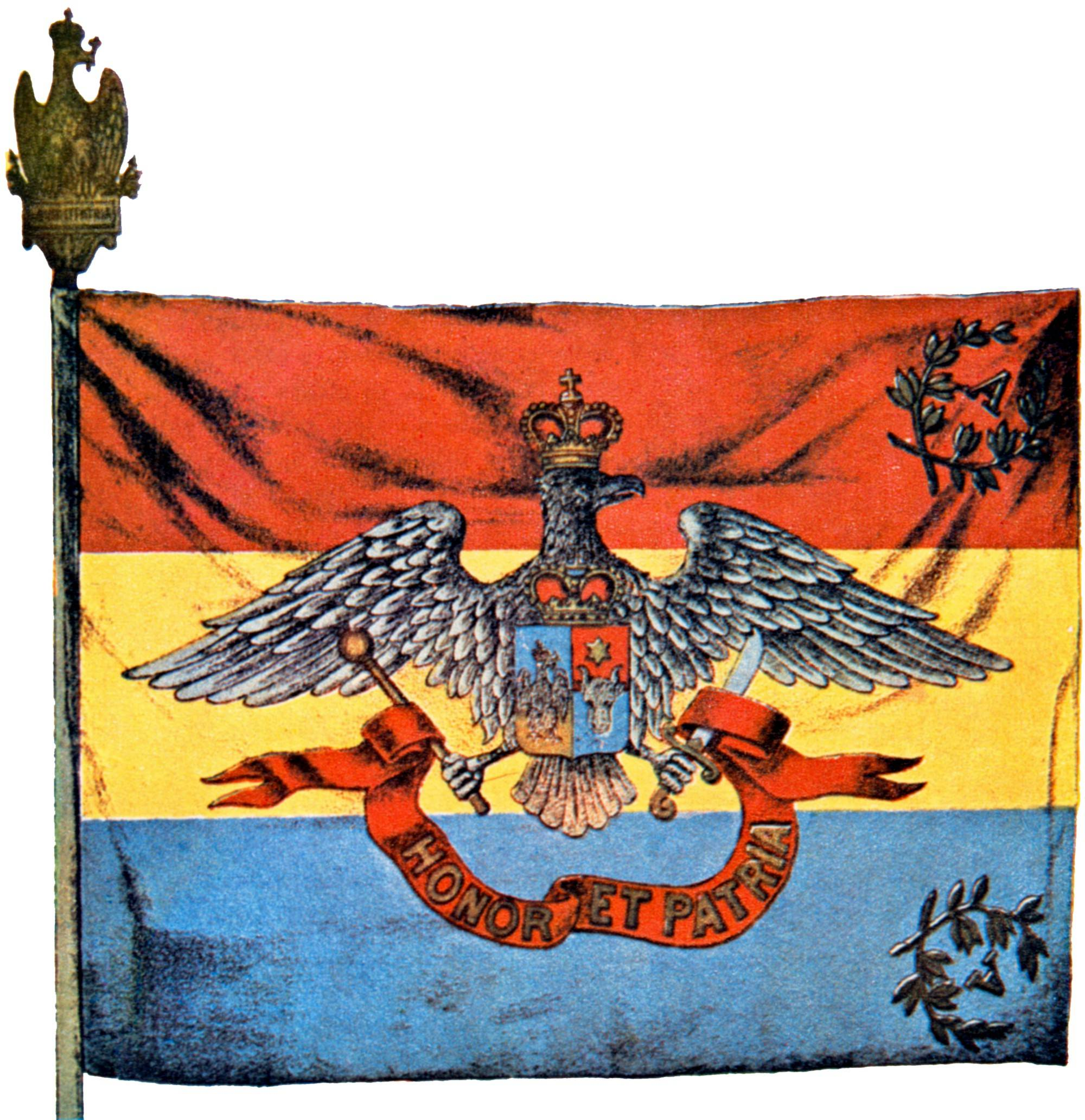 Battle ensign of United Principalities of Romania (1863 - 1874).